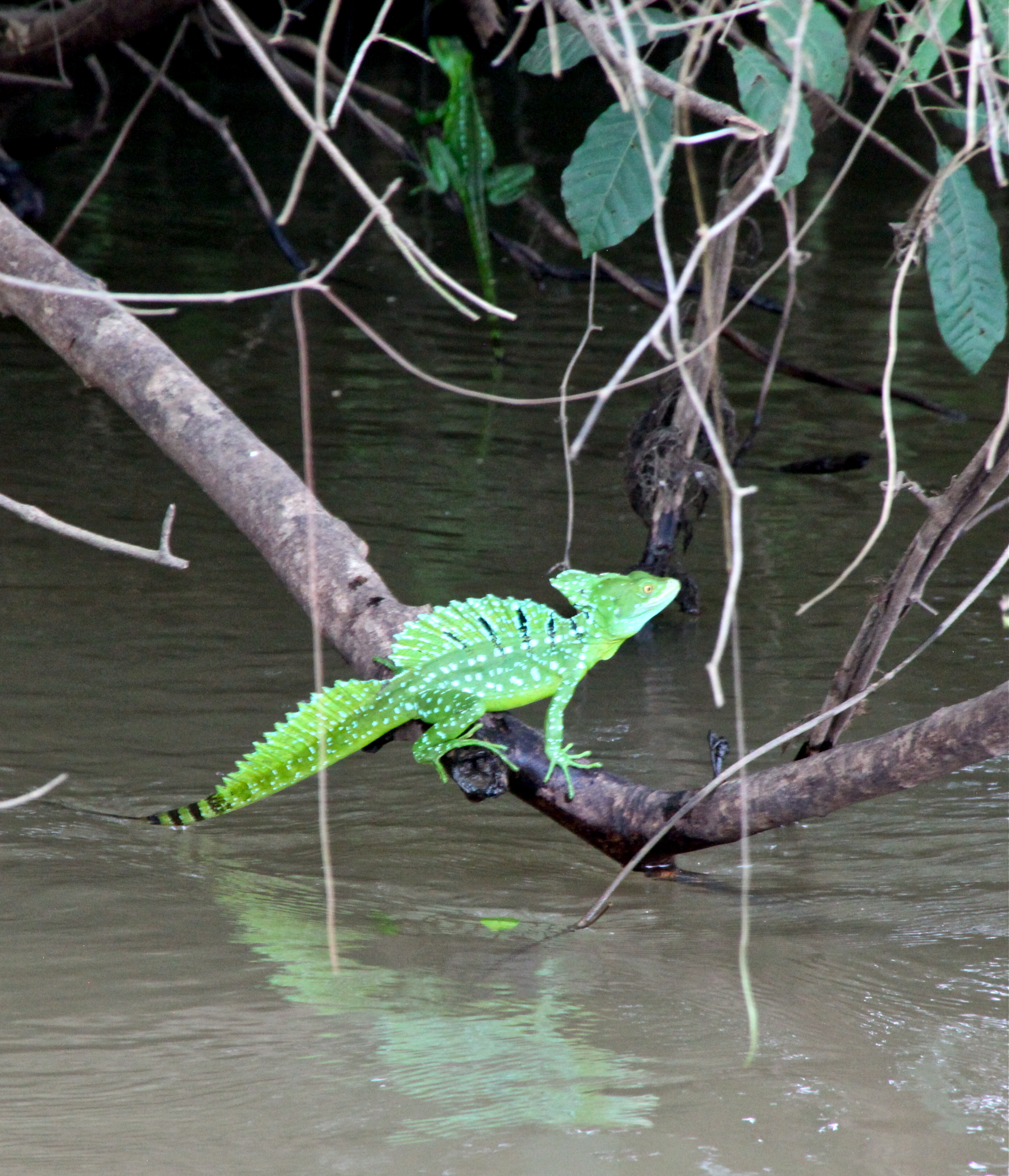 A pair of plumed basilisk (also called a green basilisk or double crested basilisk). Photographed from a boat in Costa Rica.